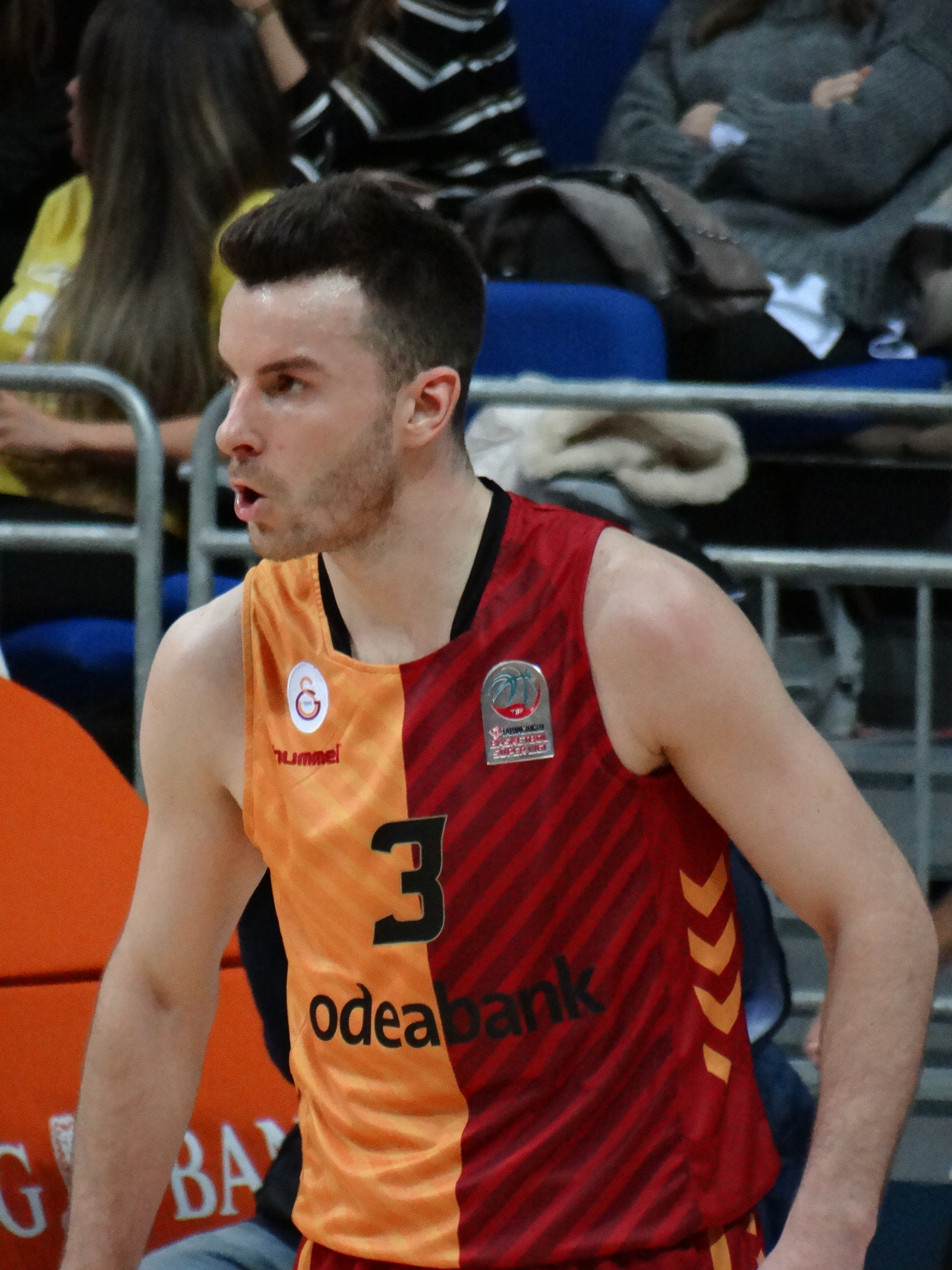 Adas Juškevičius Fenerbahçe Men's Basketball vs Galatasaray Men's Basketball TSL 20180304